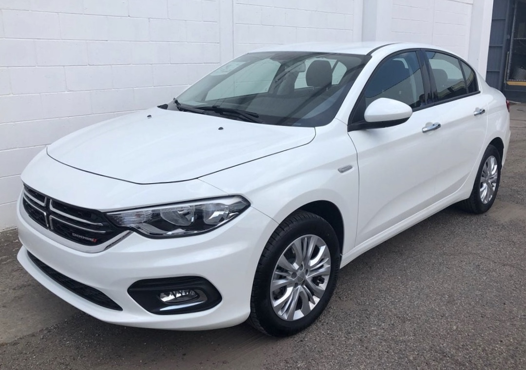 The Dodge Neon MY 2018 1.6 16V SXT Automatic AT6 in Chile. The vehicle was based on Euro Fiat Tipo sedan.